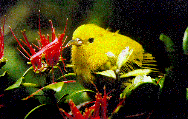 Magumma parva (syn. Hemignathus parvus), Alakai Wilderness Preserve, Kauai, Hawaii.